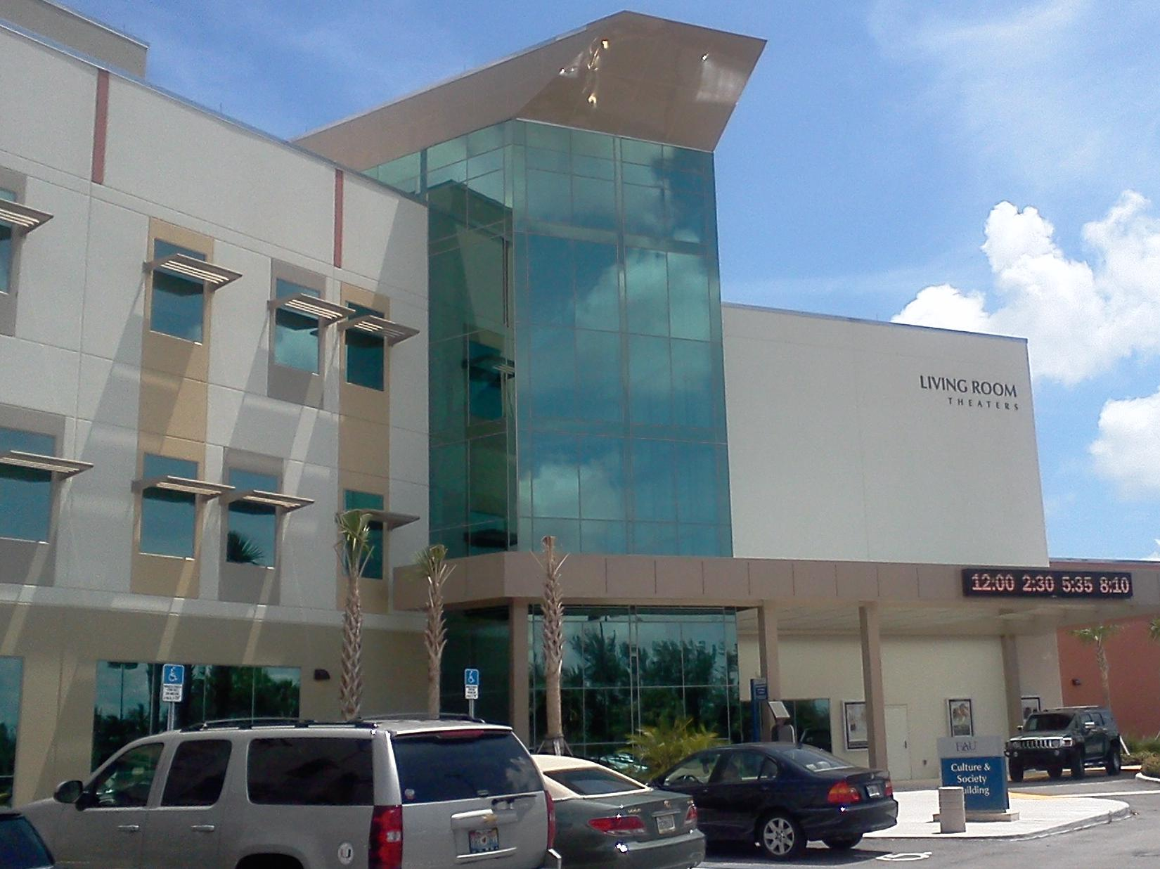 The Living Room Theaters complex on the Boca Raton campus.